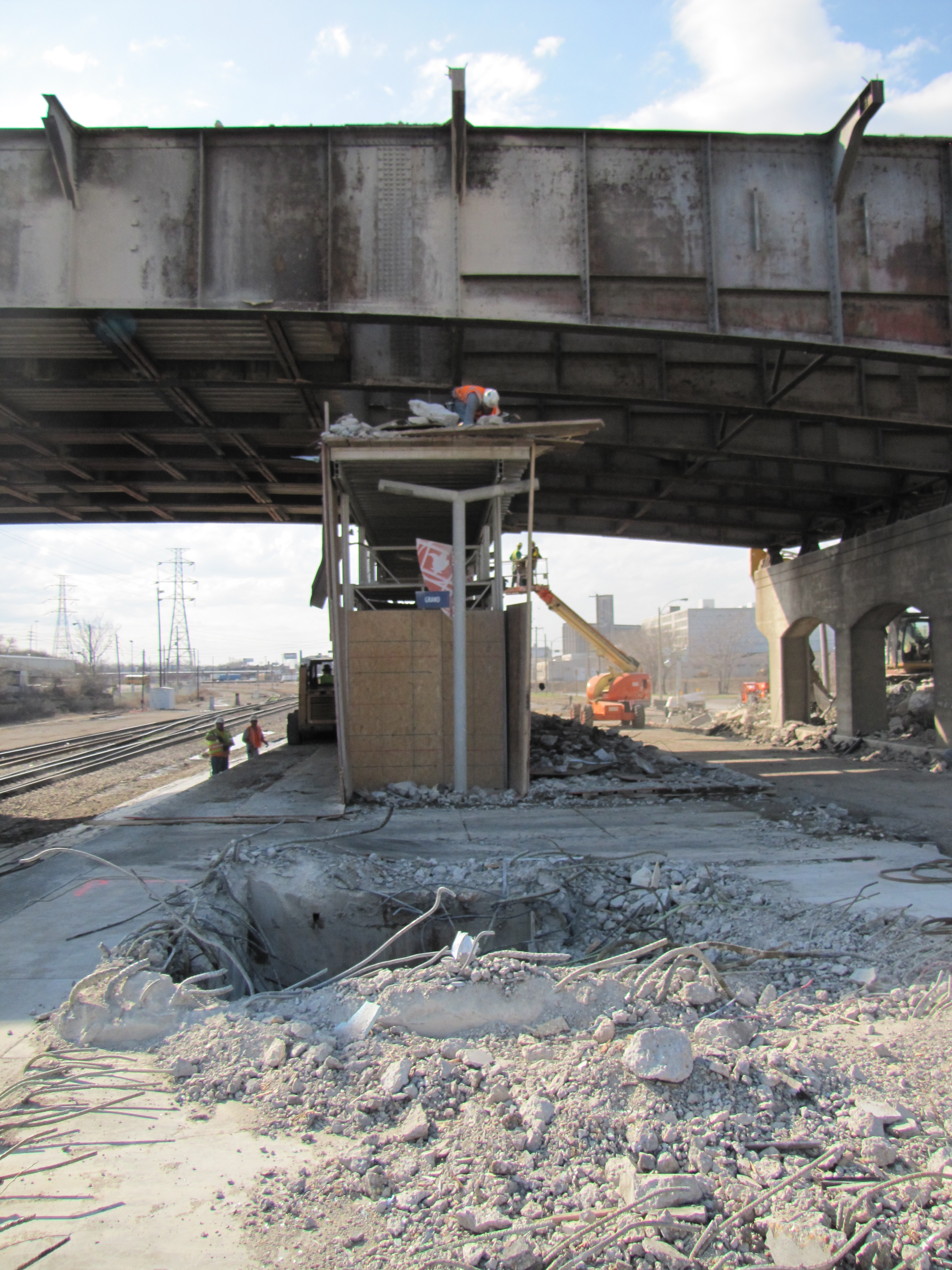 Remains of Grand MetroLink Station elevator towers